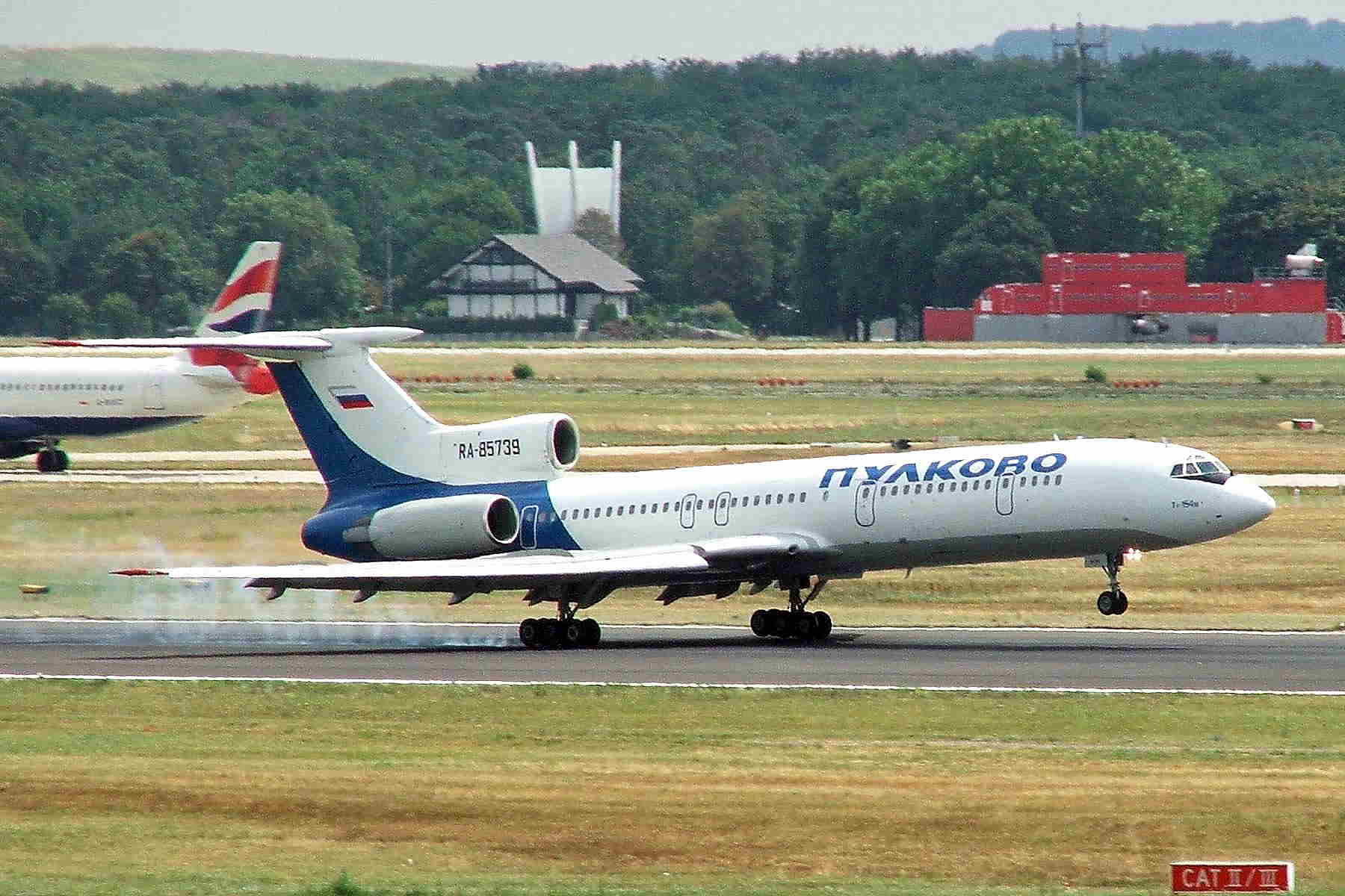 RA-85739 Tupolev Tu-154M of Pulkovo Avn Co landing at Frankfurt Airport.